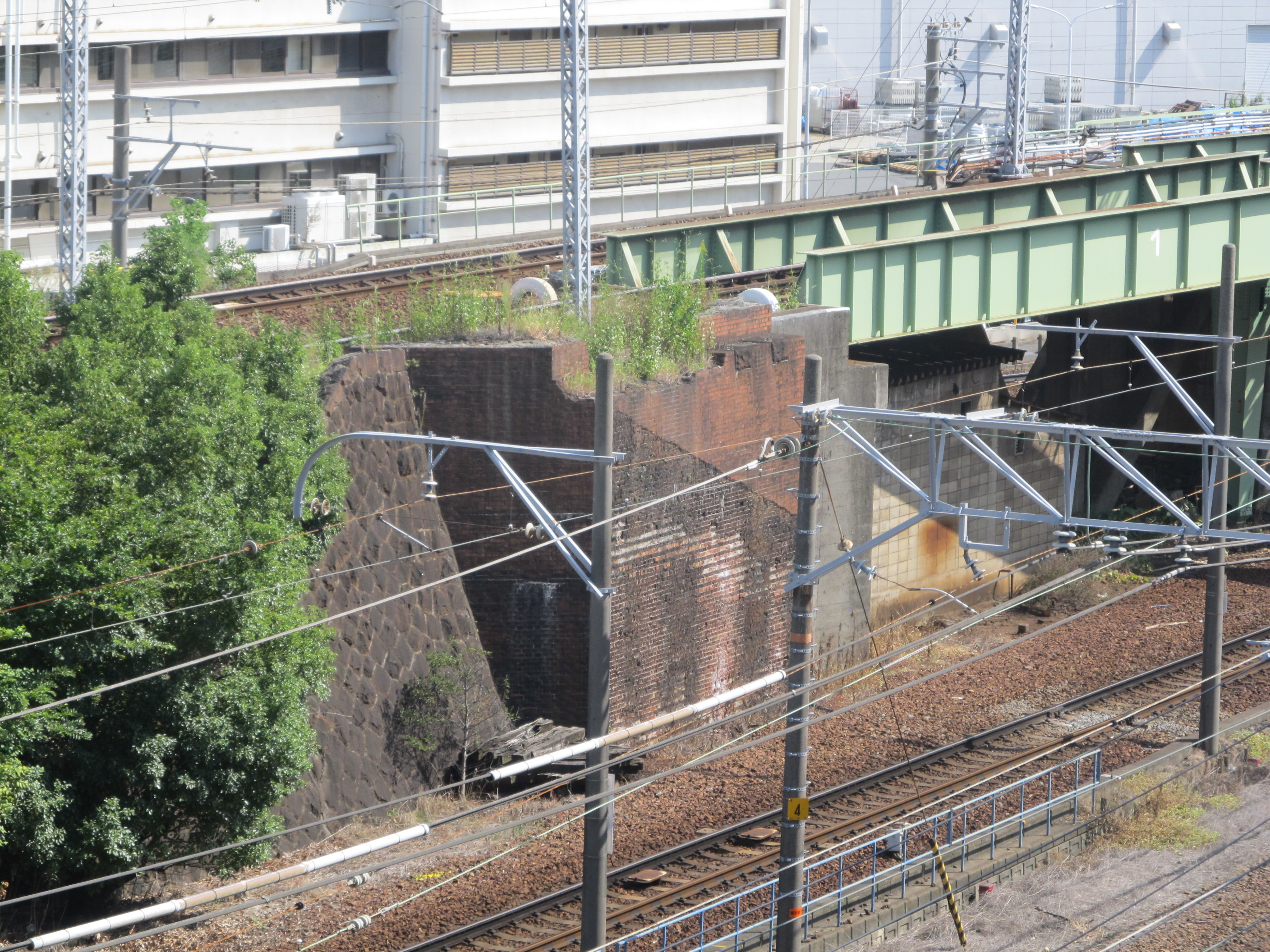 Nagoya Railroad Tokoname Line Jingū-mae Station Former line Abutment